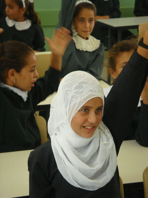 Palestinian children in the Gaza Strip have returned to school after summer break but faces overcrowding in classroom